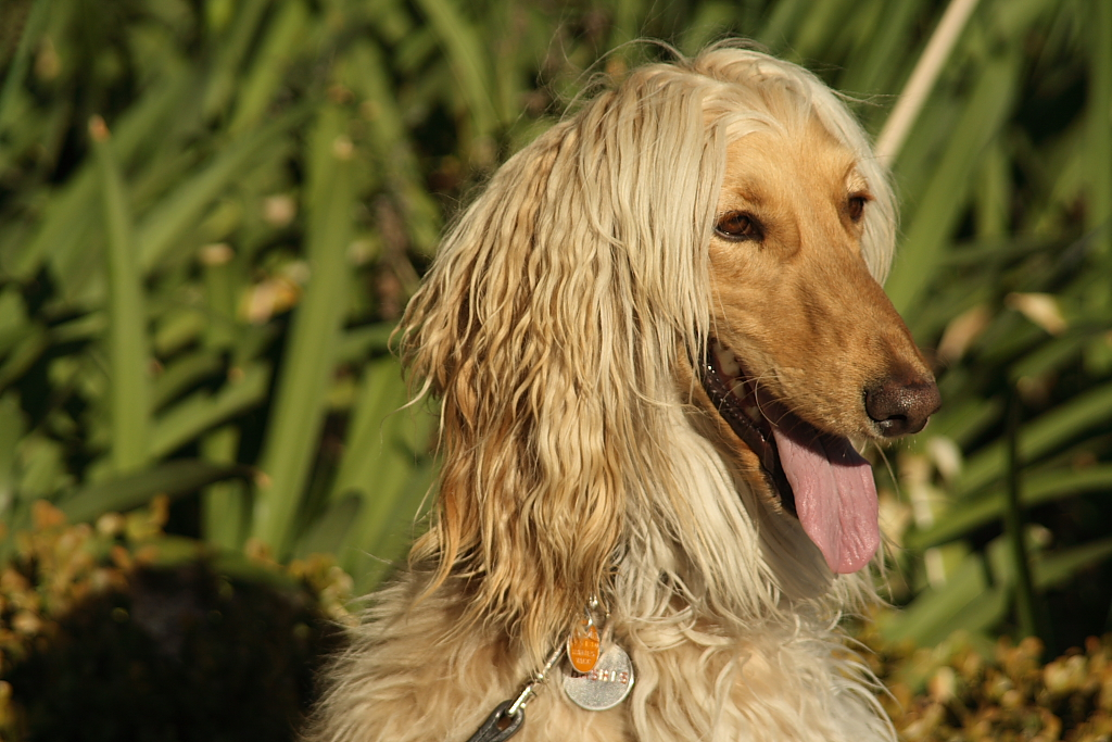 A portrait of an Afghan Hound.